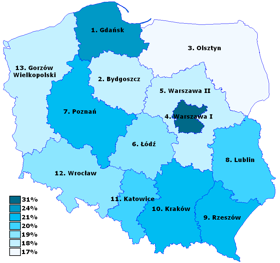 European Parliament election, 2004 (Poland) - Voter turnout by constituencies